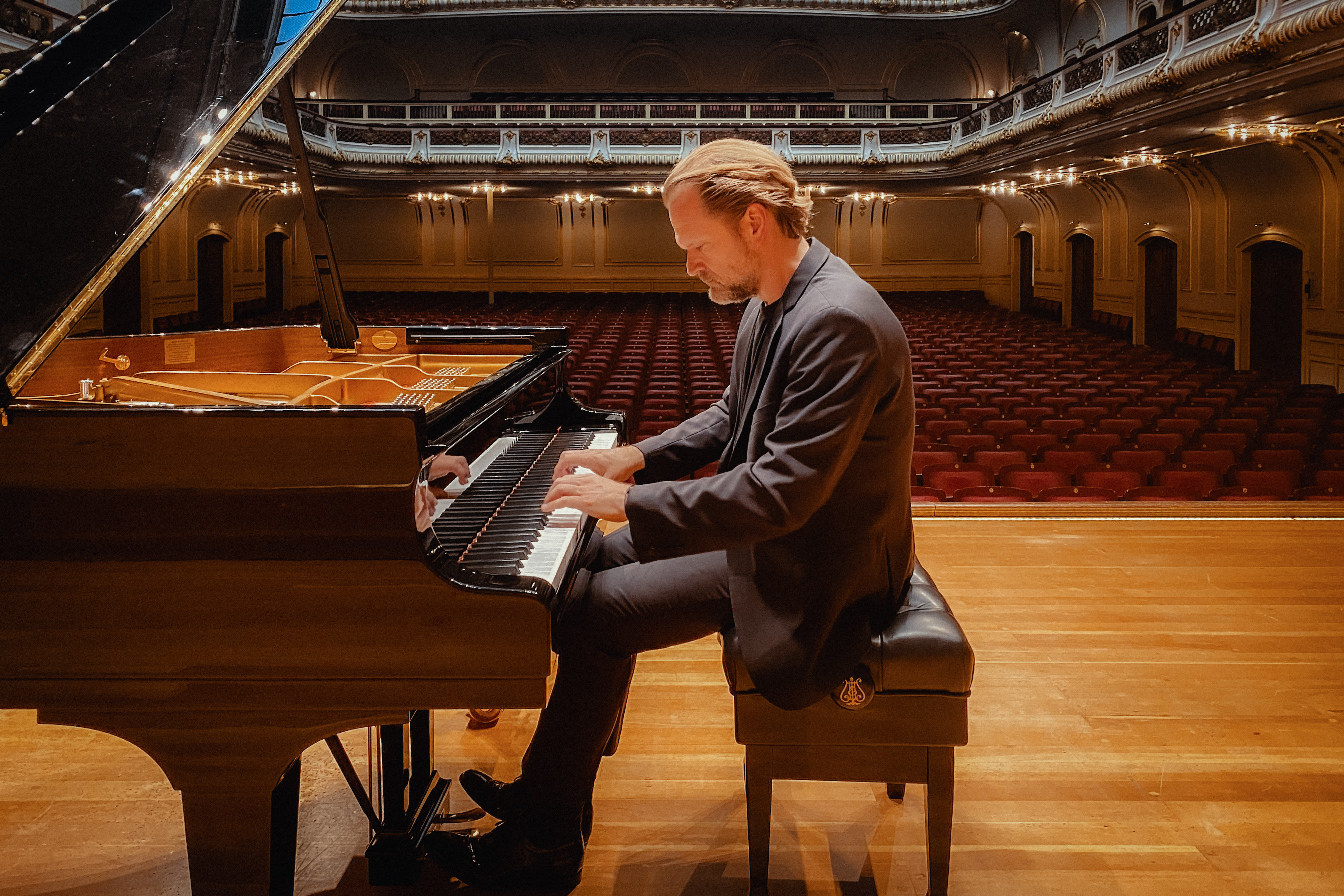 Der Pianist Sebastian Knauer in der Hamburger Laiszhalle